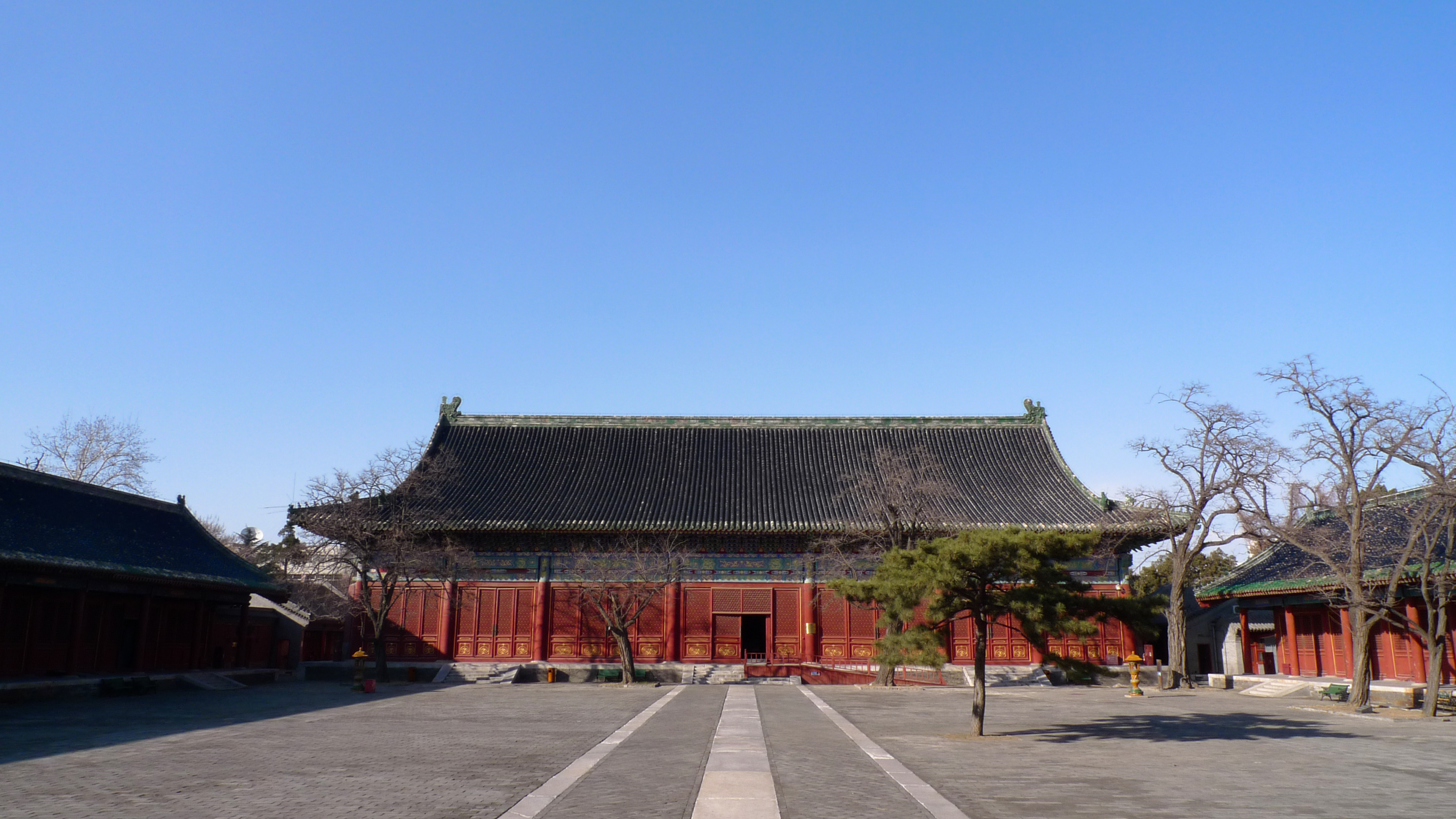 The Xiannongtan (aka Temple of Agriculture) in Beijing, China.